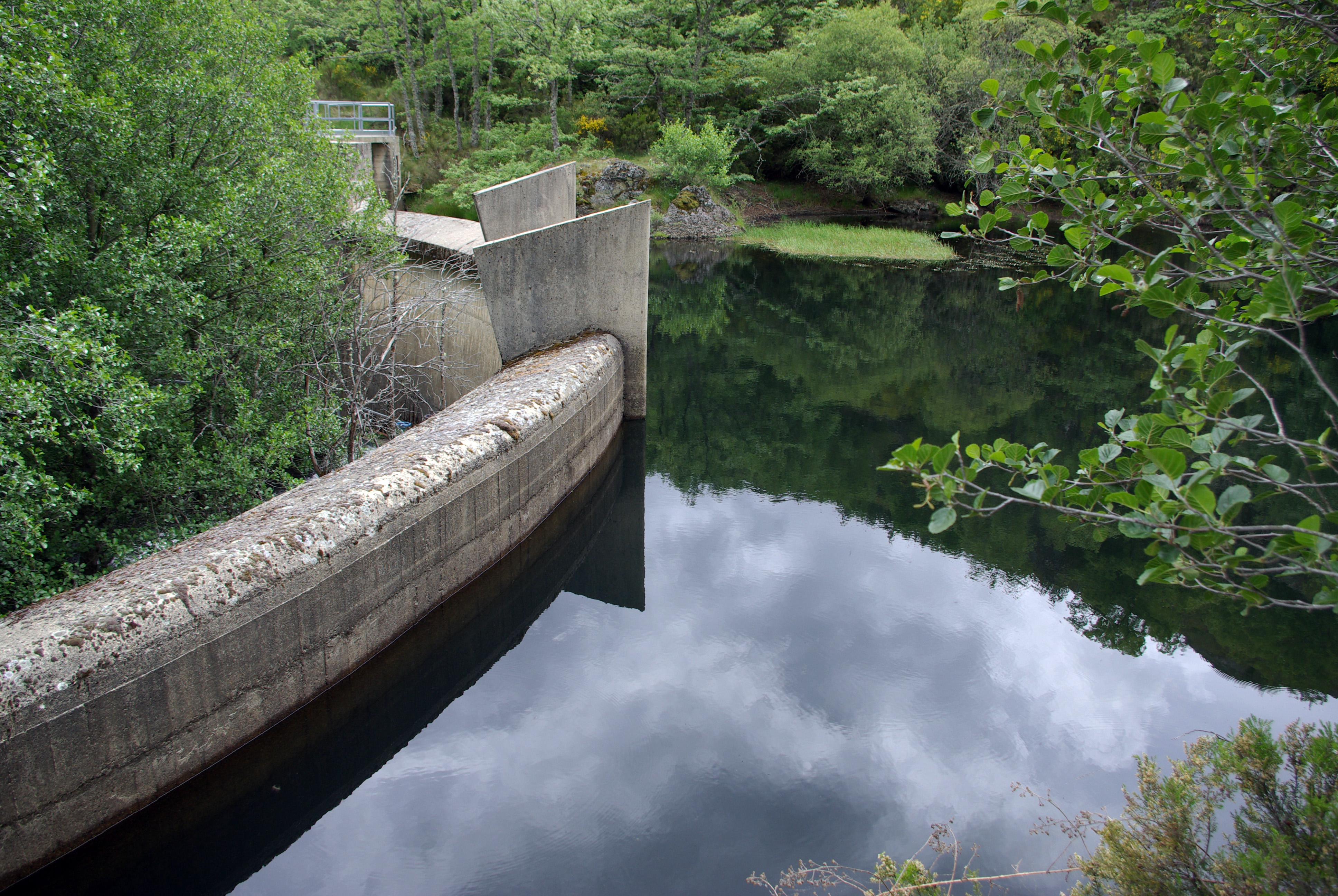 Dam of river Valdesamario, Órbigo basin, near Murias de Ponjos (Valdesamario, León, Spain).